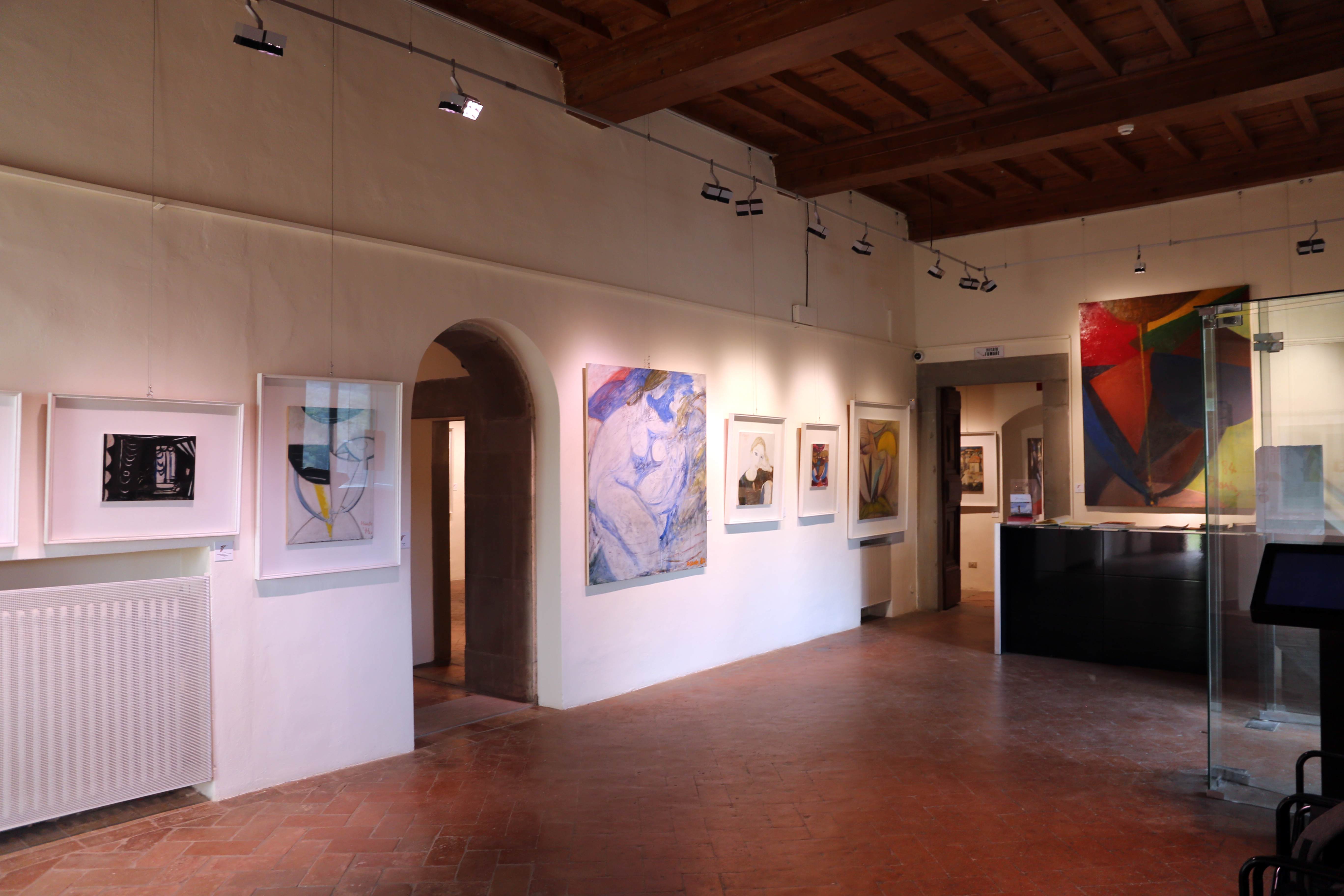 Villa Le Coste